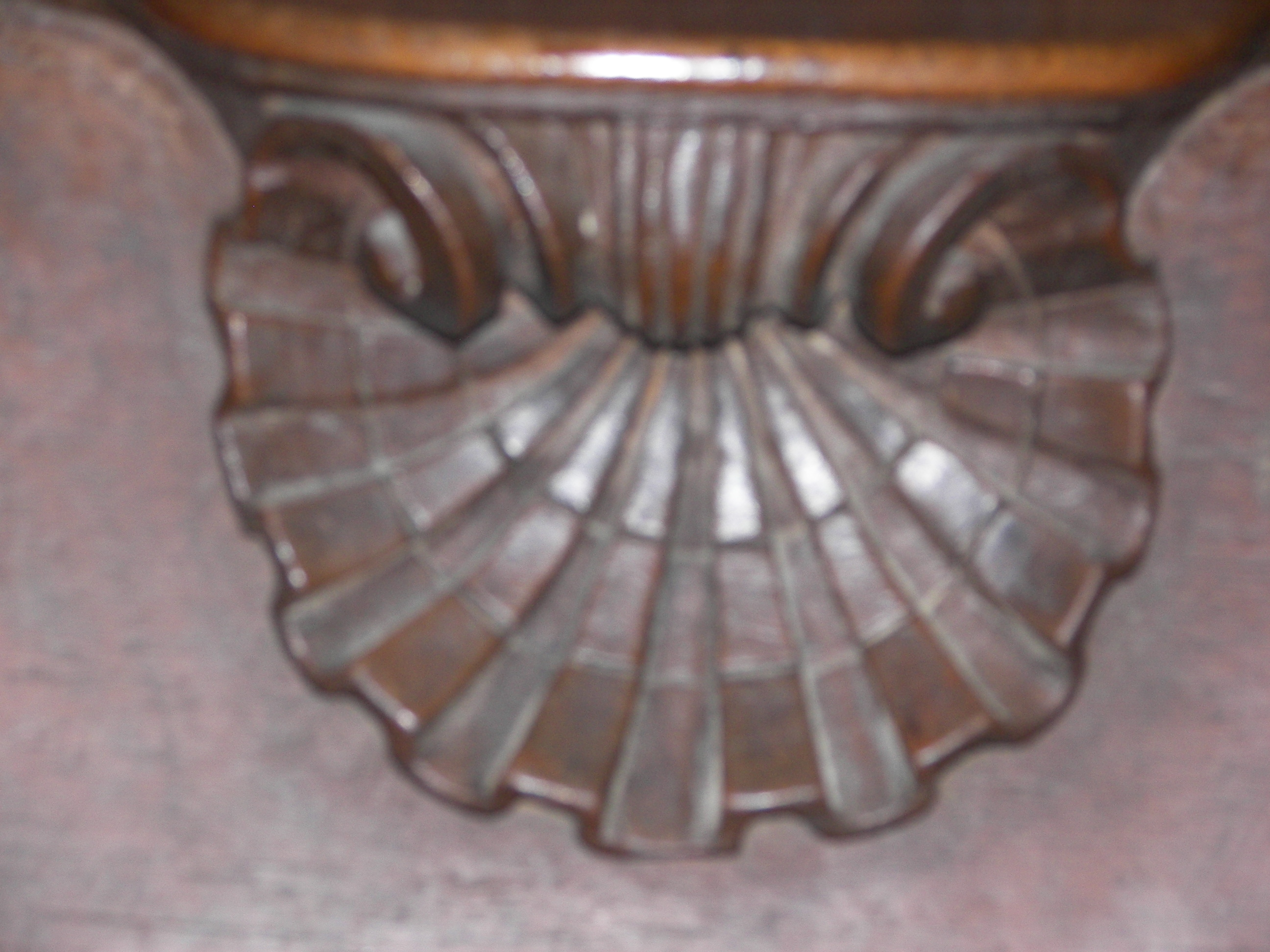 Misericord from cathedral Saint Maclou (Pontoise/FRANCE)